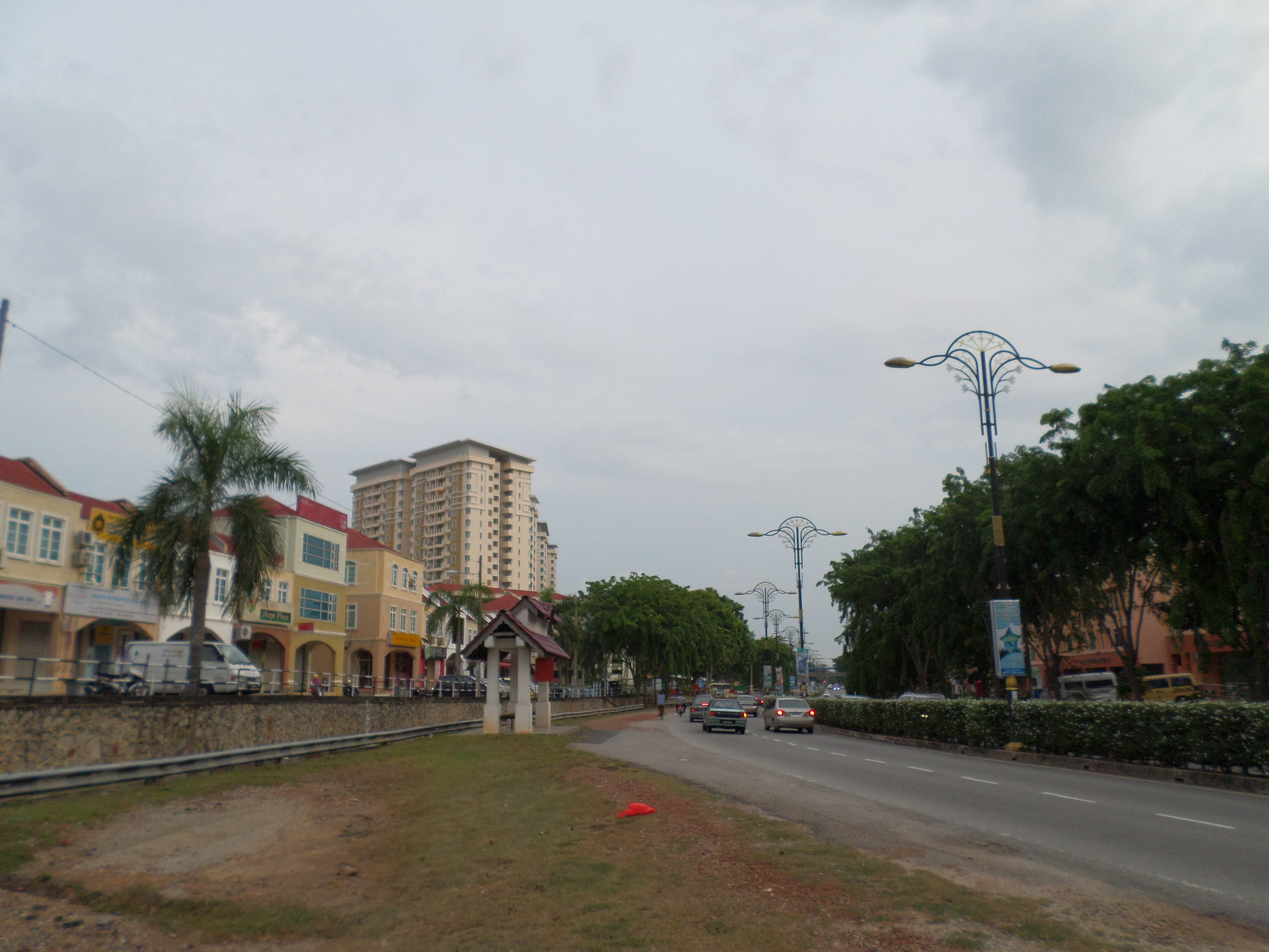 Bukit Beruang, Malacca, MalaysiaBahasa Melayu: Bukit Beruang, Melaka, Malaysia